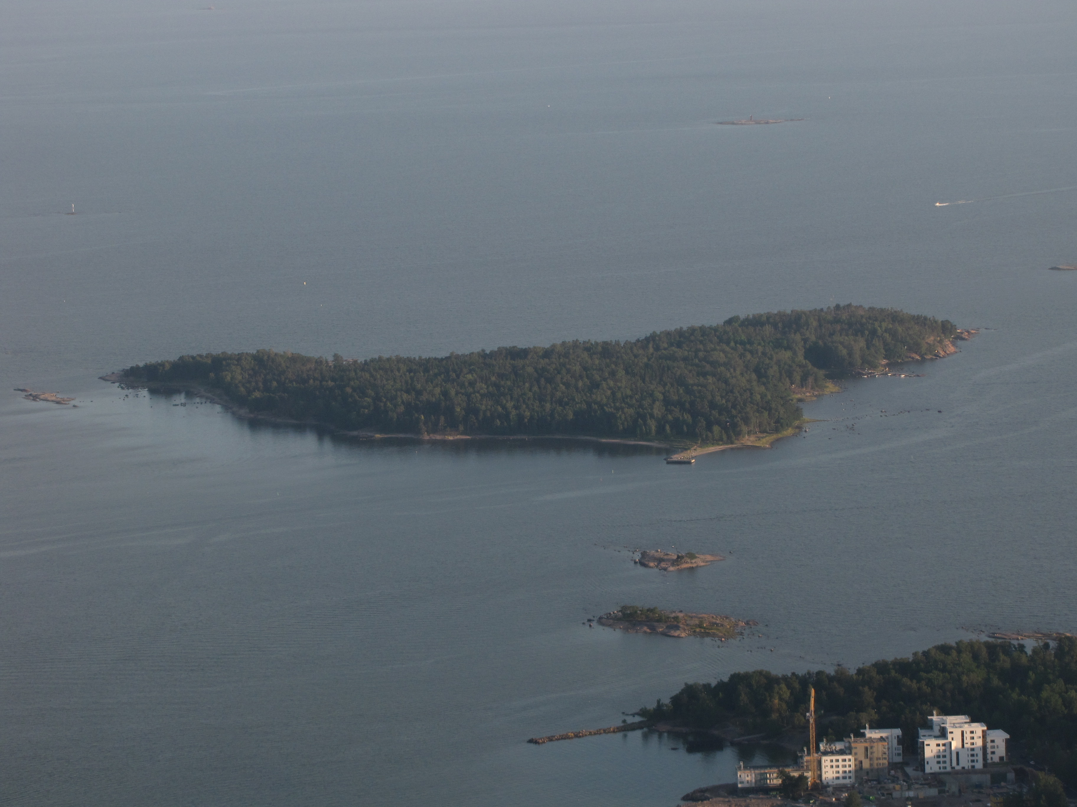 Island of Melkki photographed from a hot air balloon.